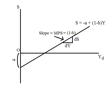 It shows the savings function which has marginal propensity to save as its slope and '-a' as its negative intercept showing the autonomous savings at disposable income level Yd = 0.